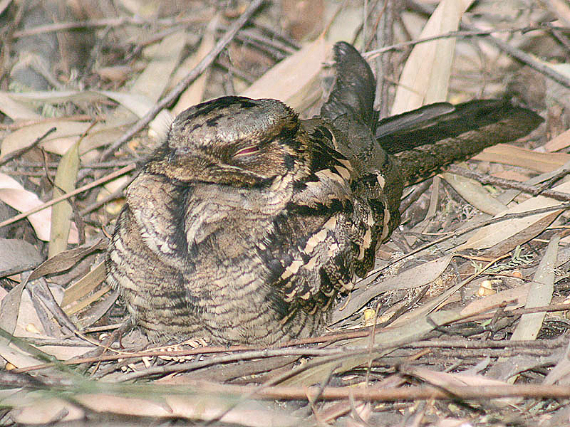 Large-tailed Nightjar Caprimulgus macrurus at Bharatpur, Rajasthan, India.